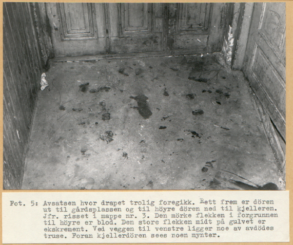 Scenery of the murder - Hall